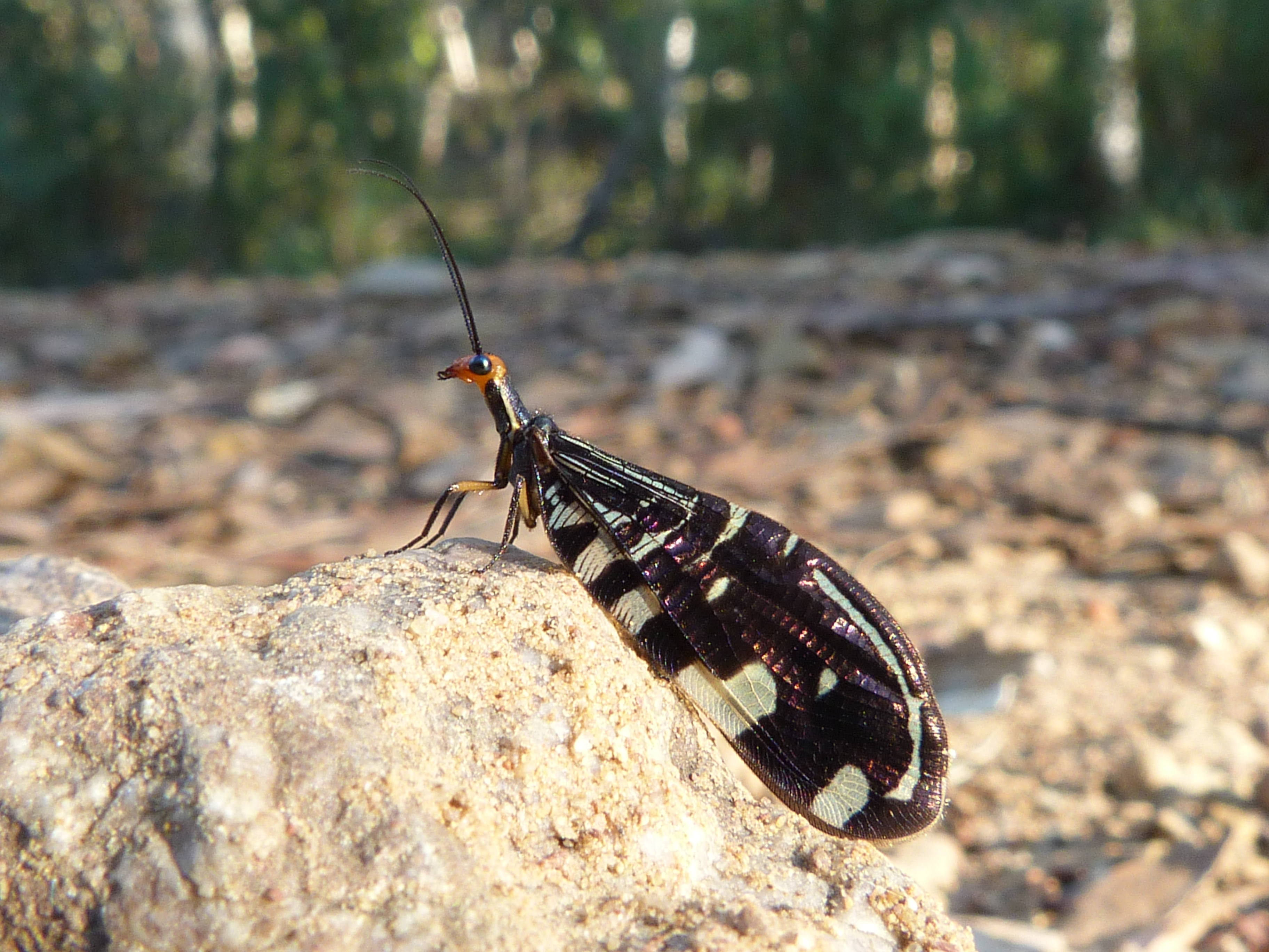 Porismus strigatus (Burmeister, 1839), Black Mountain, Canberra, ACT, 4 March 2011